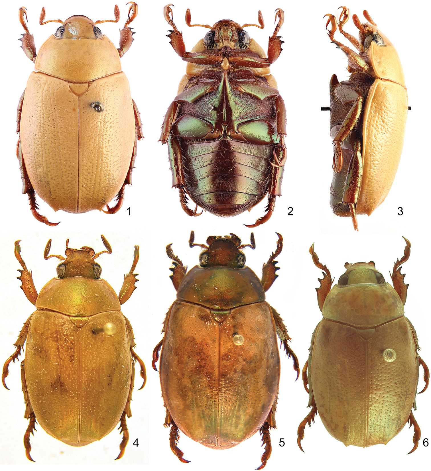 Dorsal and lateral habitus of Mesomerodon species. 1–3 M. barclayi sp. n., male holotype, dorsal, ventral, and lateral view 4–5 M. gilletti Soula holotype male specimen and female allotype specimen 6 M. spinipenne Ohaus male non-type specimen